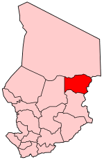 Map of Chad showing Wadi Fira region.